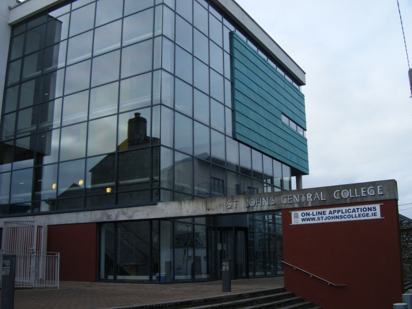 The front of the new building of St. John's Central College. Located in Cork, in the Republic of Ireland, it is a further education facility